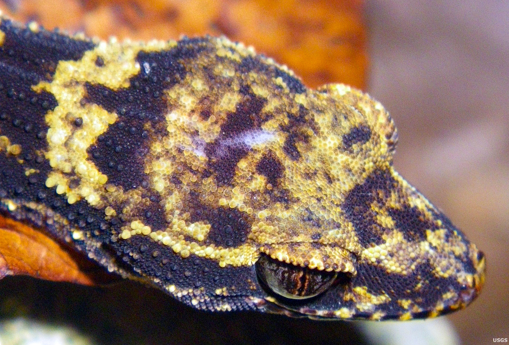 Nactus kunan Bumblebee Gecko, from Papua New Guinea was discovered in 2010, and described as a new species in 2012. Location: Manus Island, Papua New Guinea